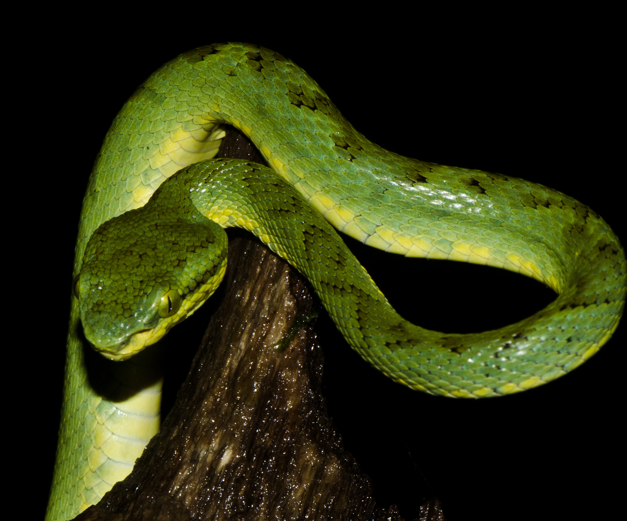 Bamboo viper (Trimeresurus gramineus).